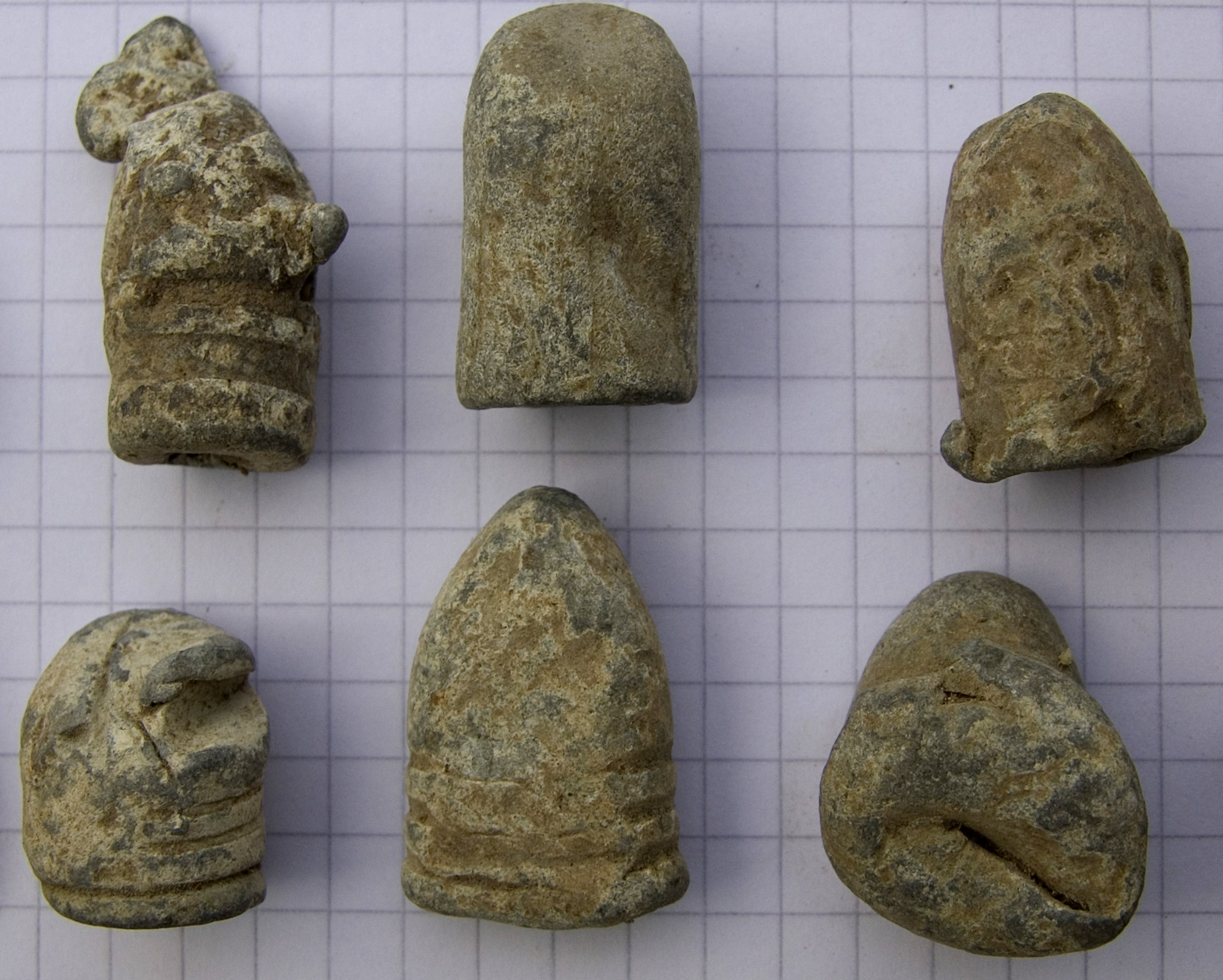 One of old lead ammunitions, very oxidized, found in northern and eastern France (field, forest, moorland) from fire fighting or training.